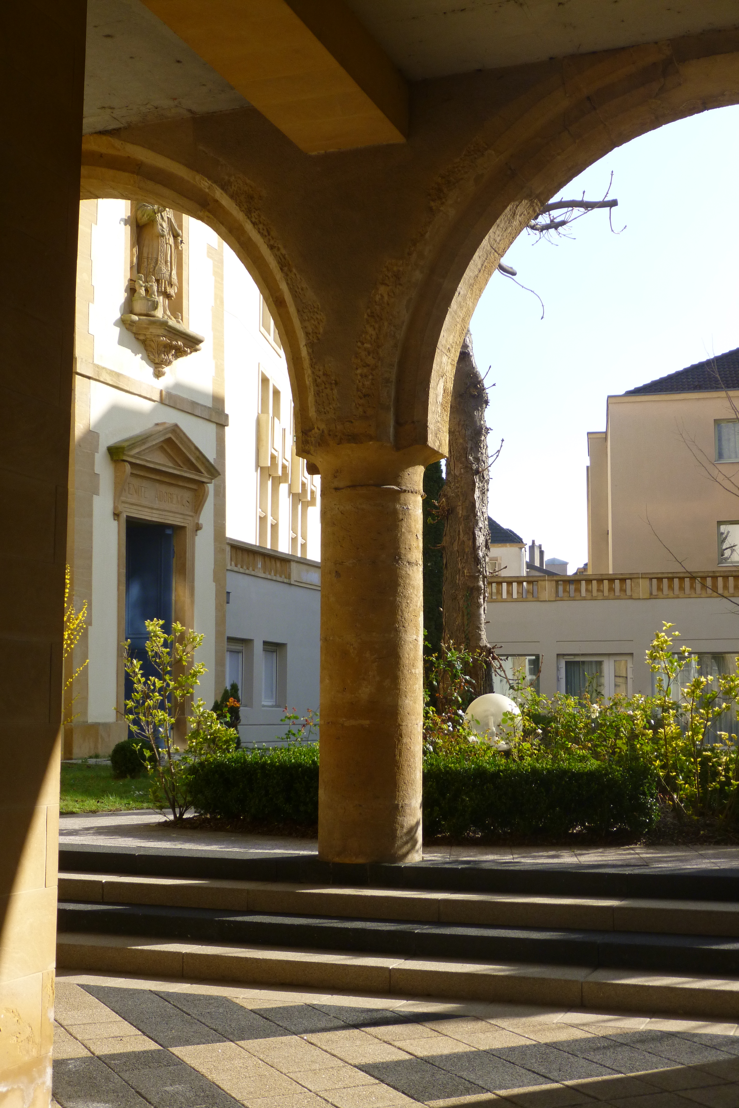 Courtyard of the former Saint-Nicolas hospital in Metz.